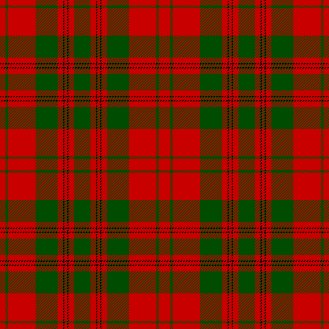 Livingstone tartan, as published in The Setts of the Scottish Tartans, by Donald C. Stewart. Thread count: R16 G4 R40 G32 R8 K2 R4 K2 R8 G24.